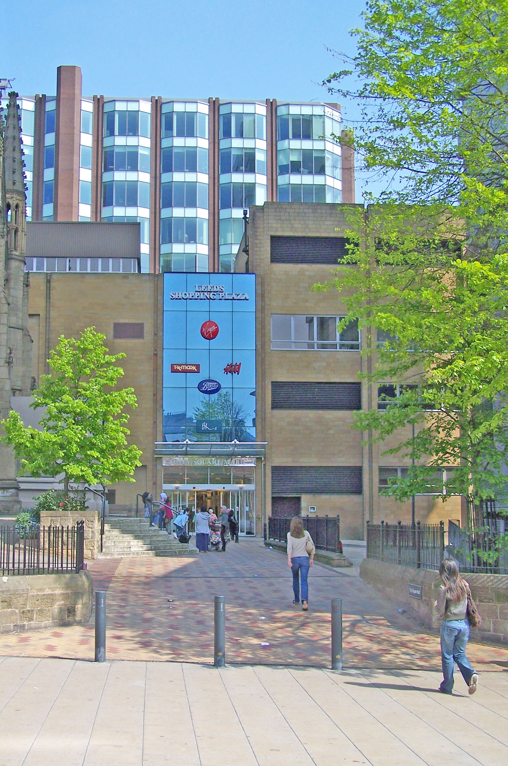 Leeds Shopping Plaza